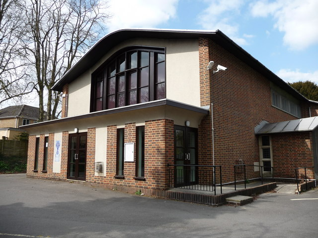 Andover - St John the Baptist RC Church This church is tucked away in a quiet corner of Andover.